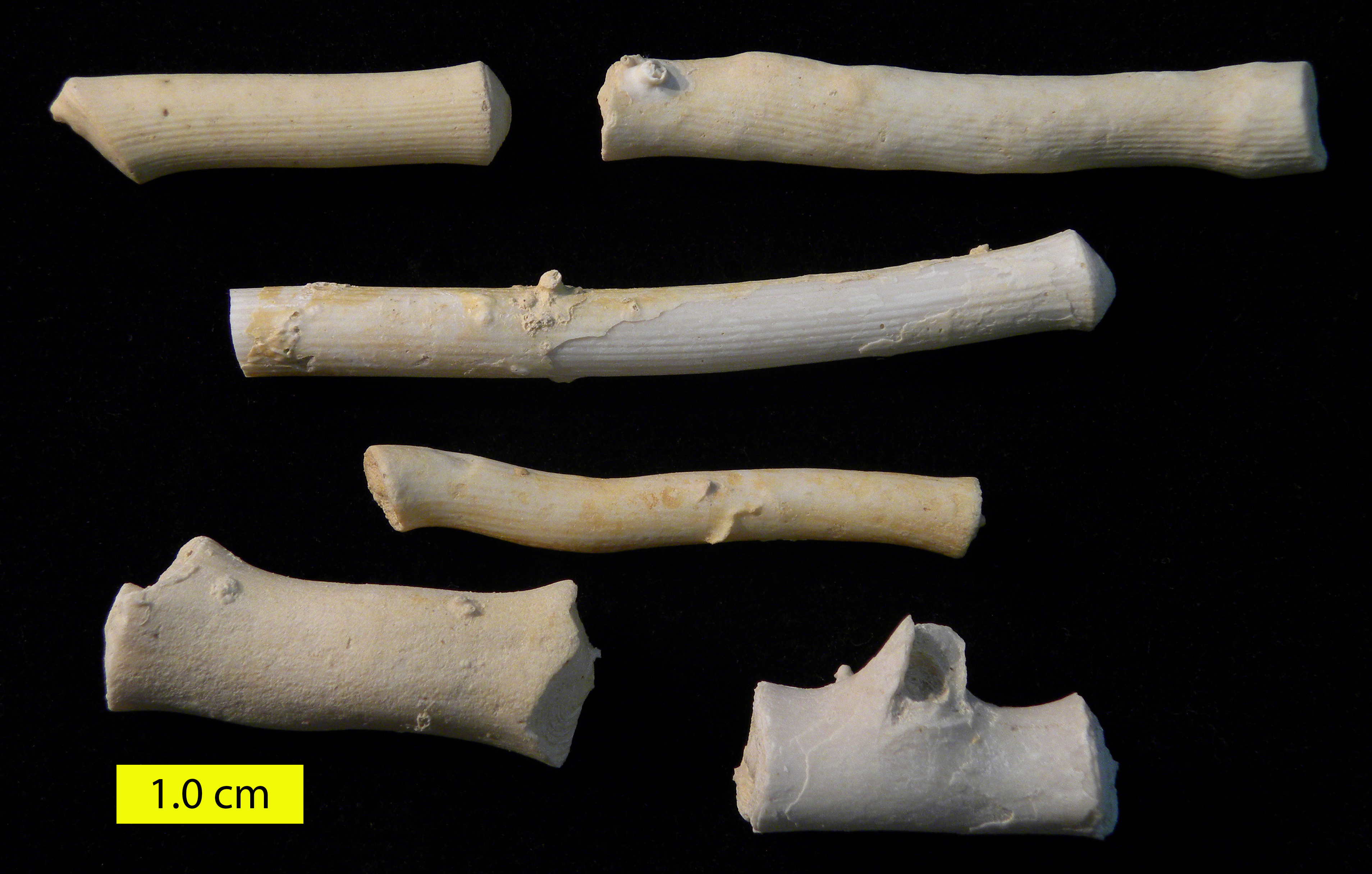 Keratoisis melitensis (Goldfuss, 1826) from the Lower Pleistocene of Cape Milazzo, Sicily, Italy. An octocoral of the Family Isididae.